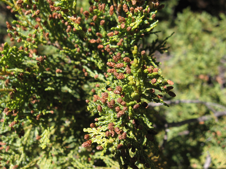 Austrocedrus chilensis Orginal description: cipres de la cordillera conos masculinos